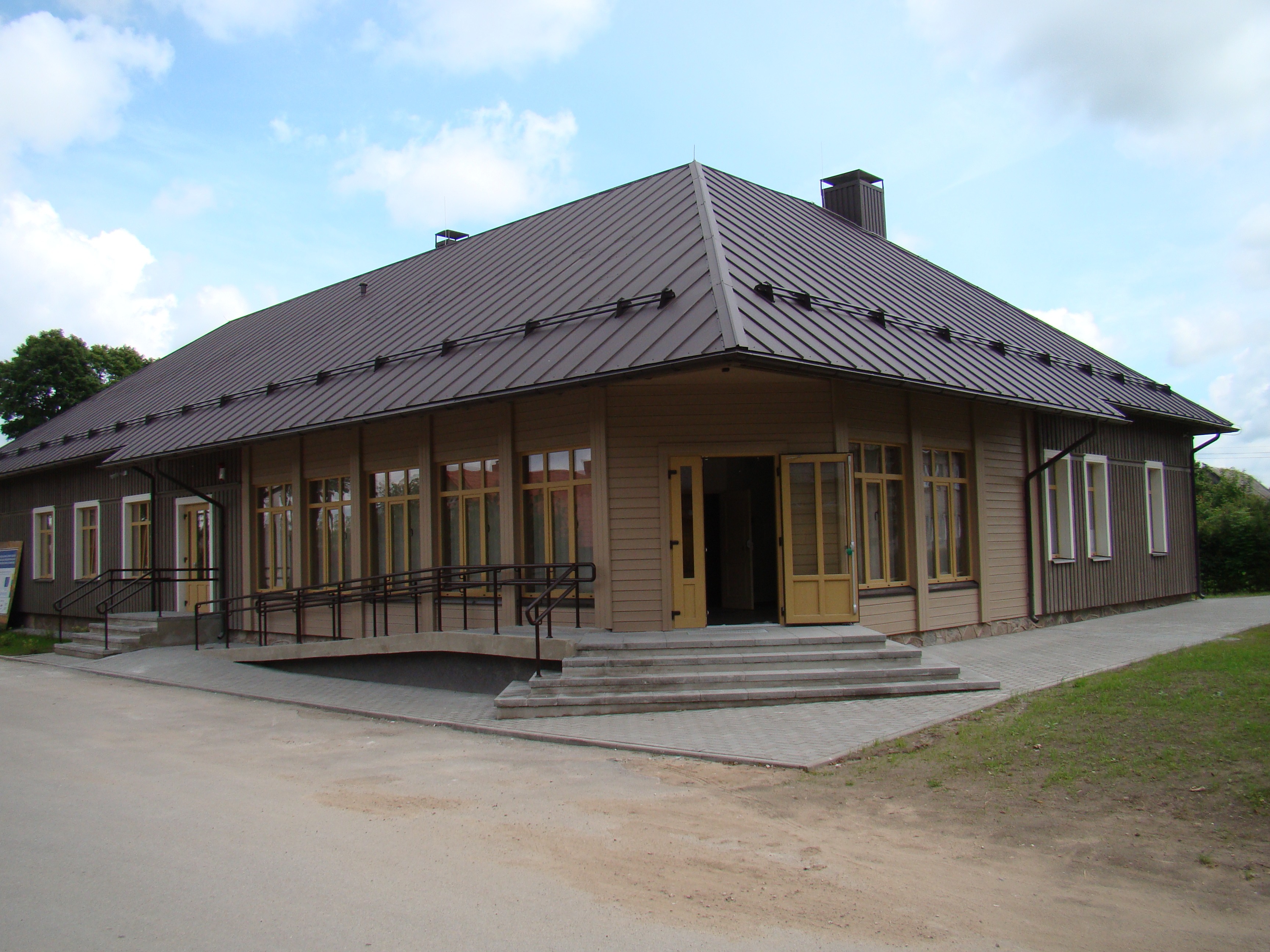 Kartena, Kretinga district, Lithuania